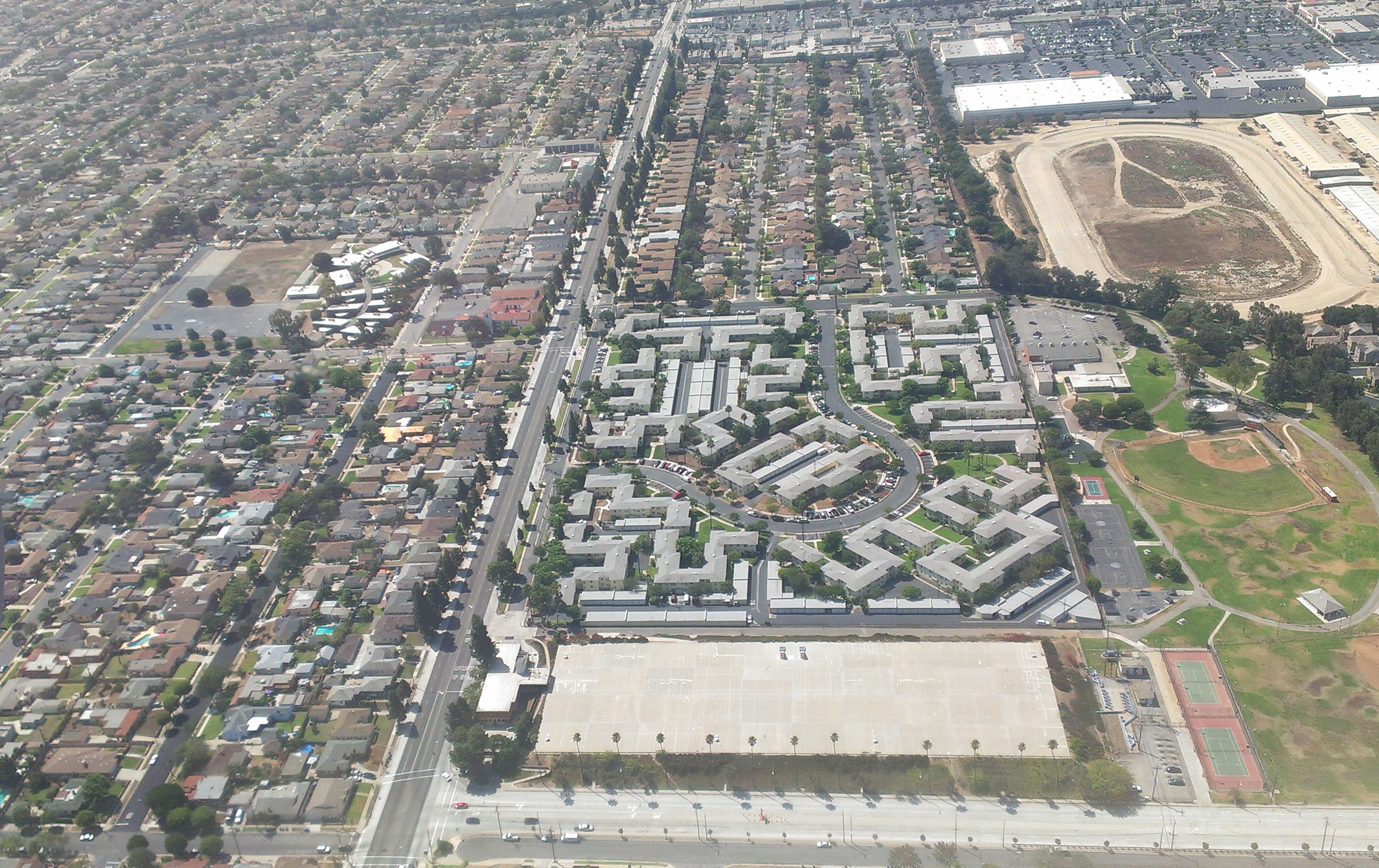 Large apartment complex near Crenshaw Blvd